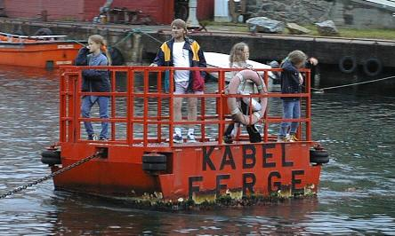 Cable Ferry at Espevær in the municipality of Bømlo, Norway